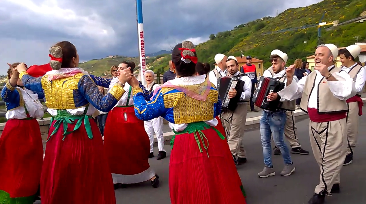 Tracht der Arbëresh von Lungro, Kalabrien während der Bukuria Arbëreshe in Cosenza 2017